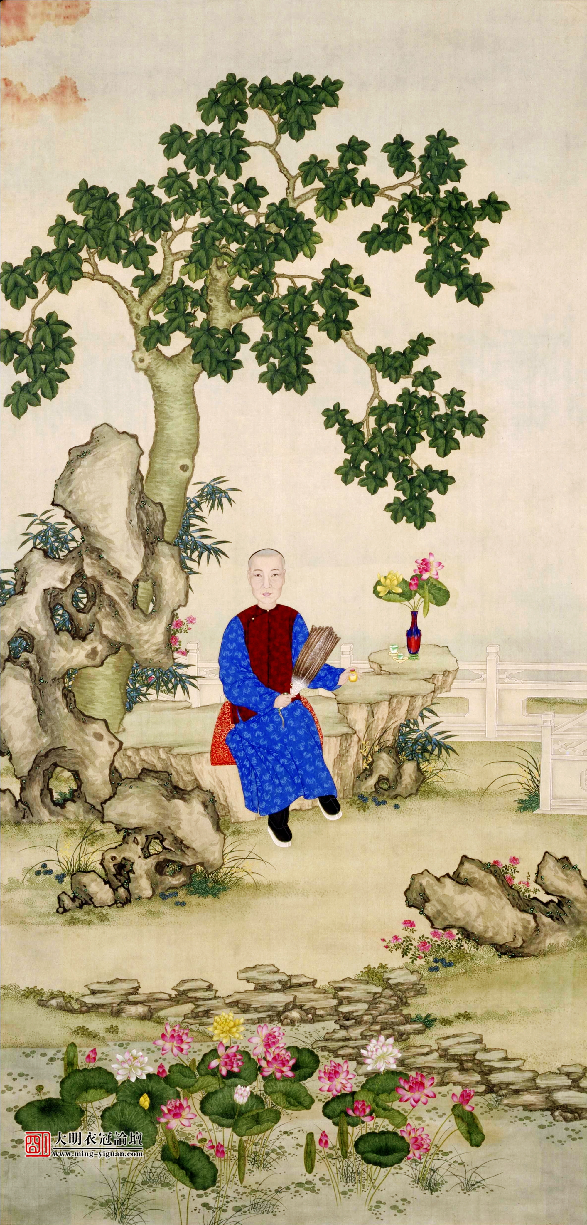 咸丰帝肖像